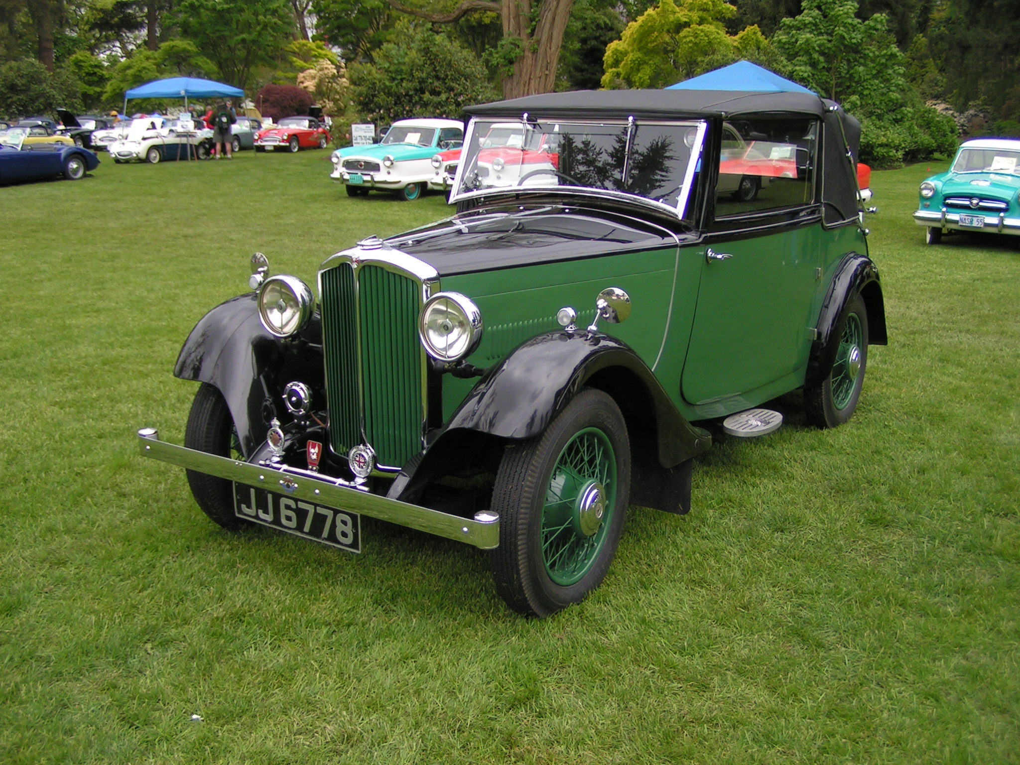 1933 Rover 10 (special coachwork) — Tickford coupé by Salmons & Sons Limited